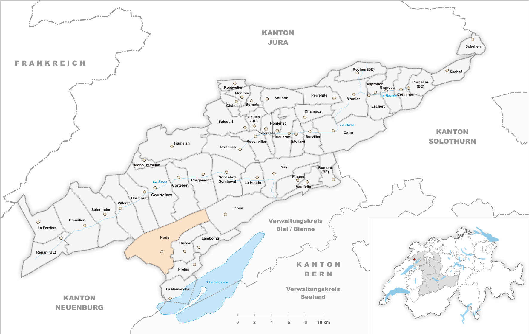 Municipality Nods